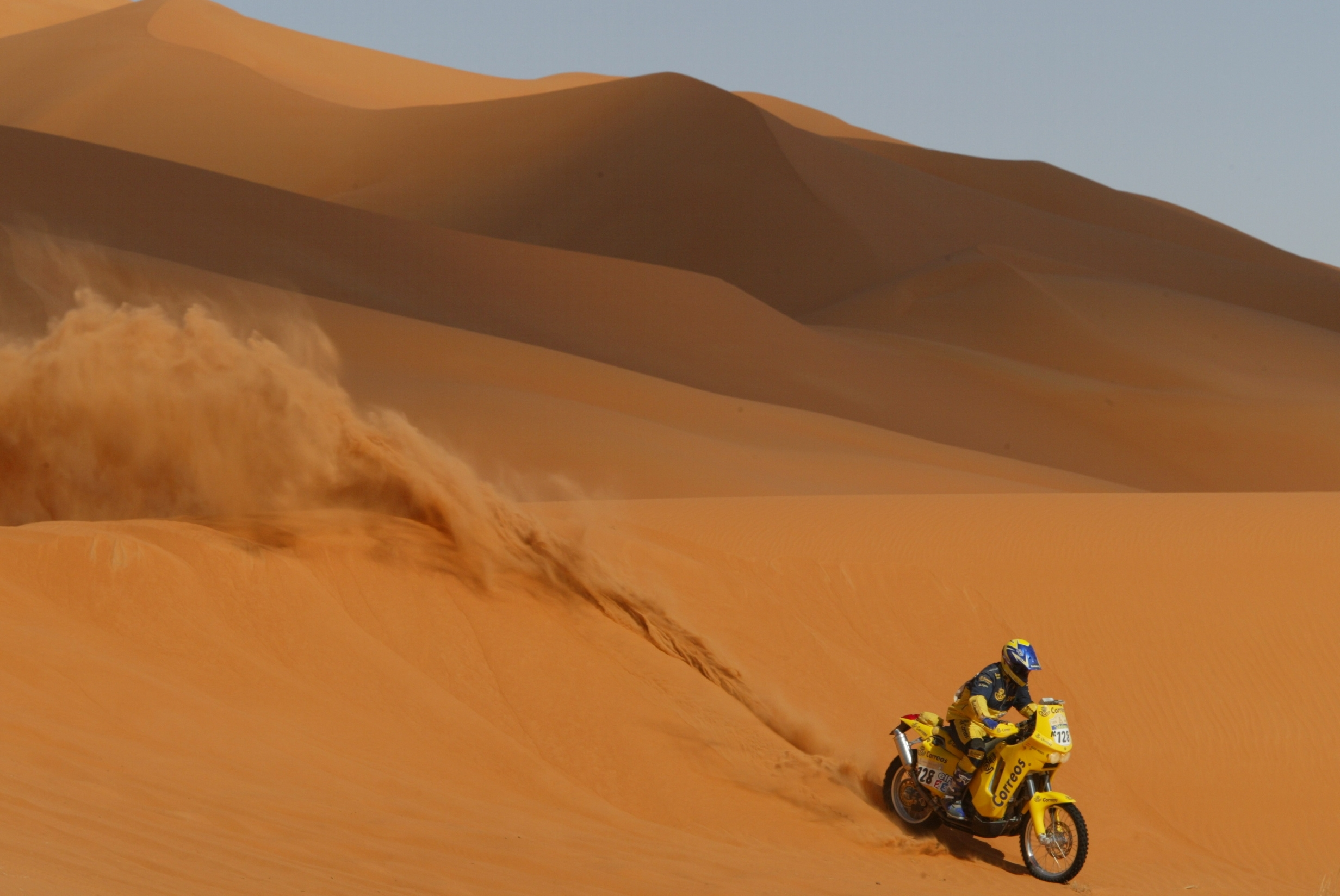 Rally Dakar Argentina-Chile-Argentina. In the picture, Mathieu Serradori (FRA), Nº 128, moto category.